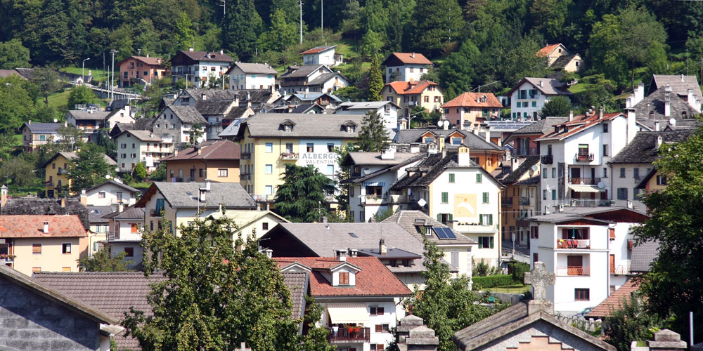 View of Baceno, VCO, Italy